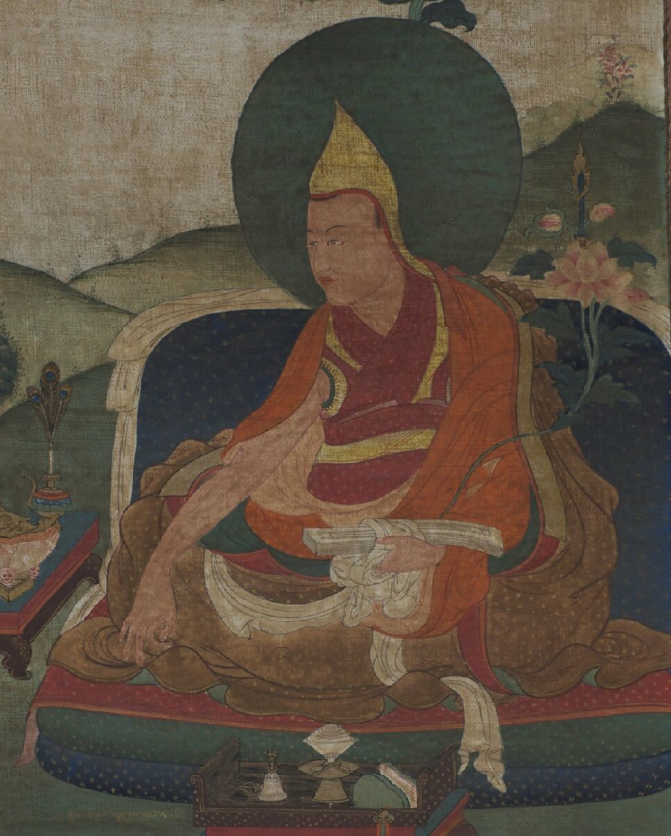 Lobzang Pelden Gyeltsen, The Seventh Tatsak Jedrung, b.1708 - d.1758